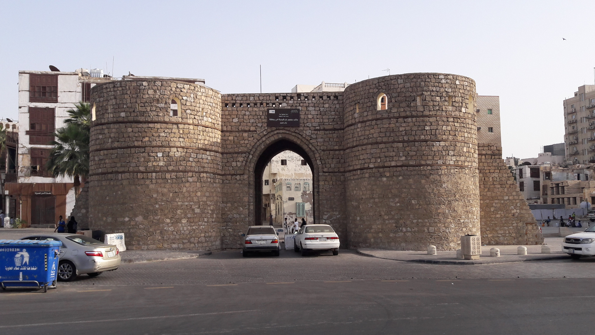 Bab Jadid, Old Jeddah